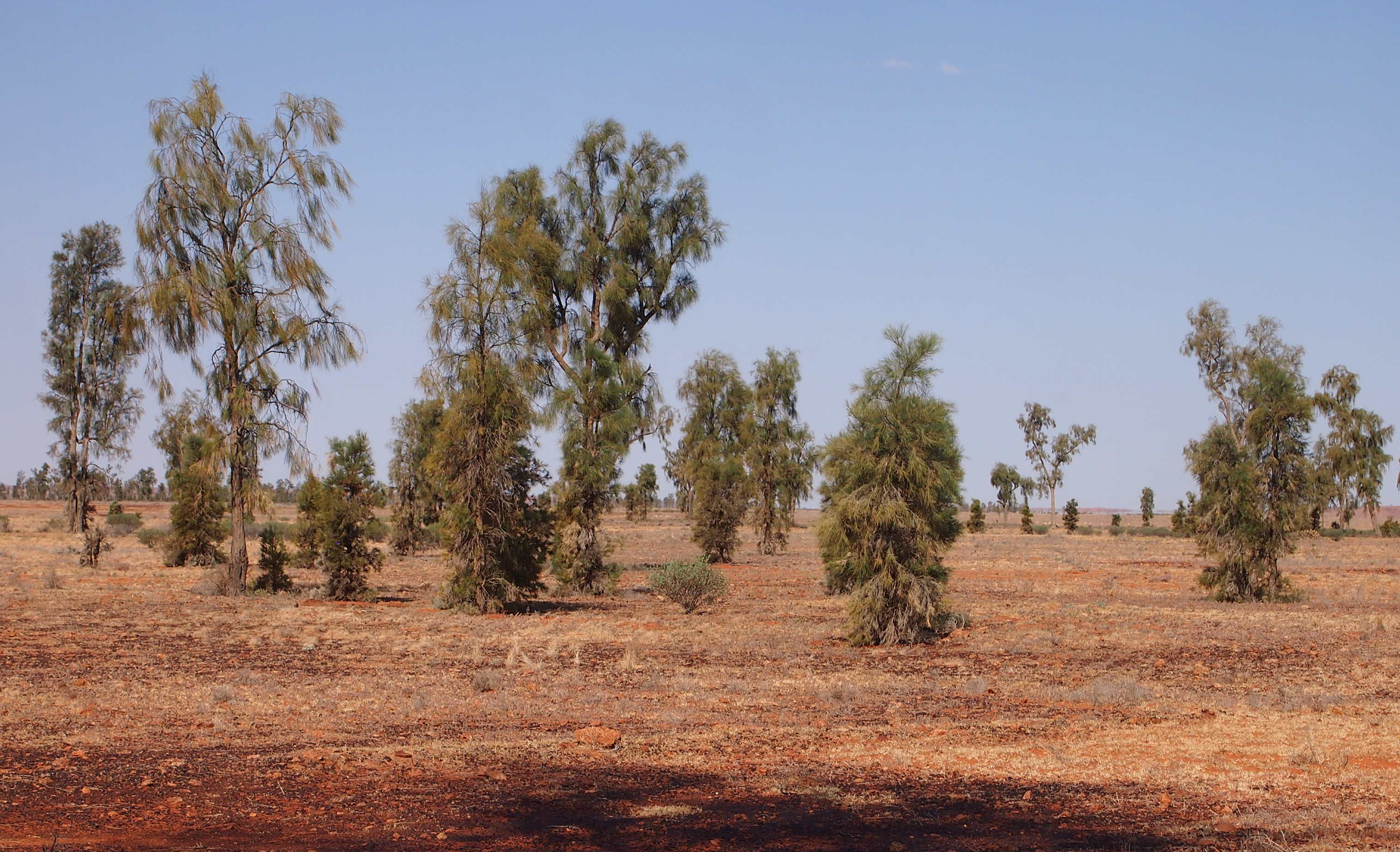 Acacia peuce stand